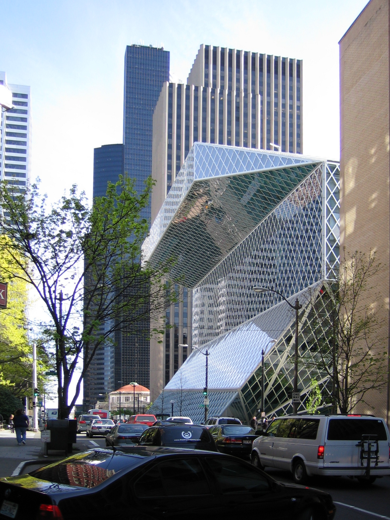 Seattle Central Library by architect Rem Koolhaas, view from 5th Ave.